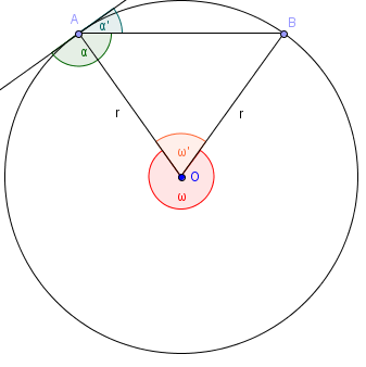 Inscribed angle case 6